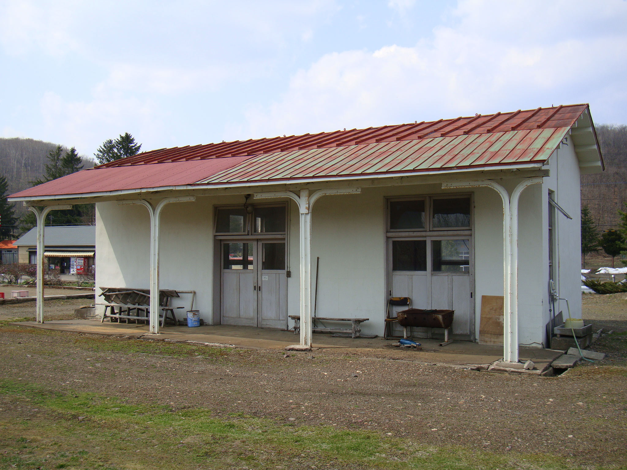 Chirai Gate ball Hall. Disused train stations on Yūmō Line.